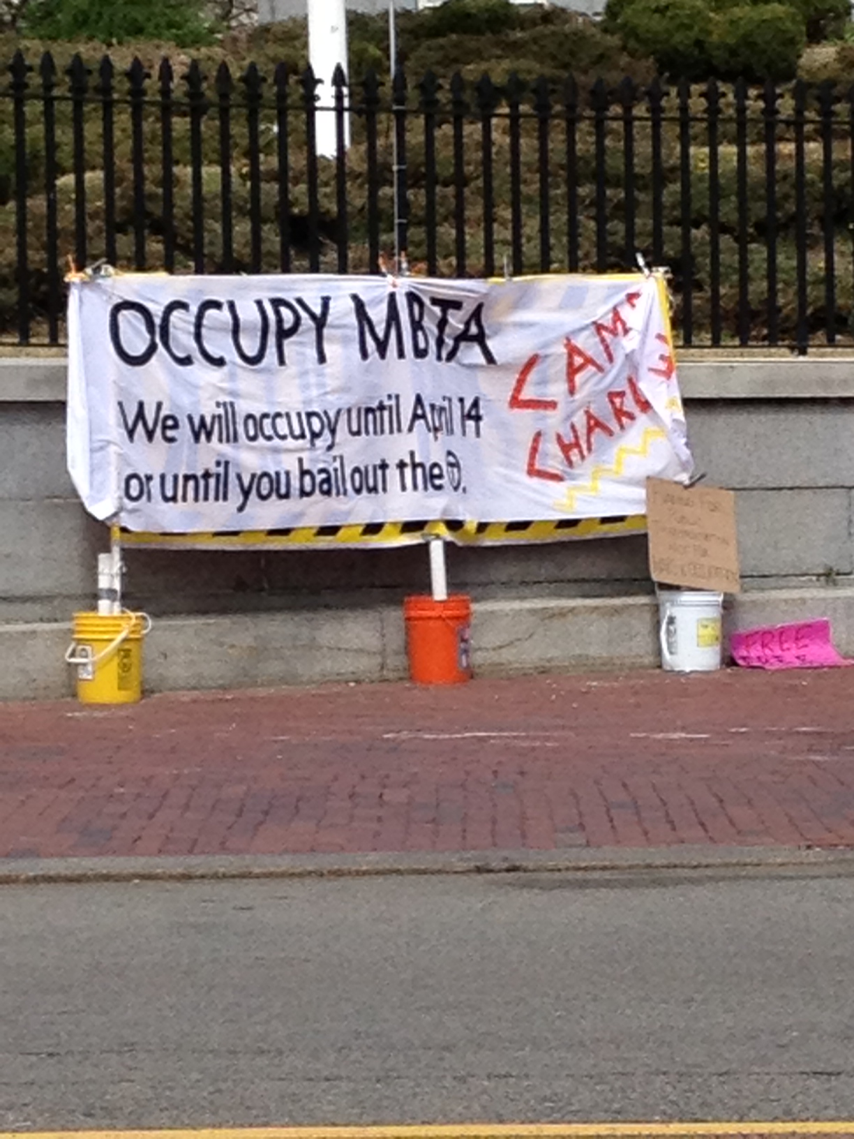 An "Occupy MBTA" banner and protest in front of the Massachusetts State House in April 2012.